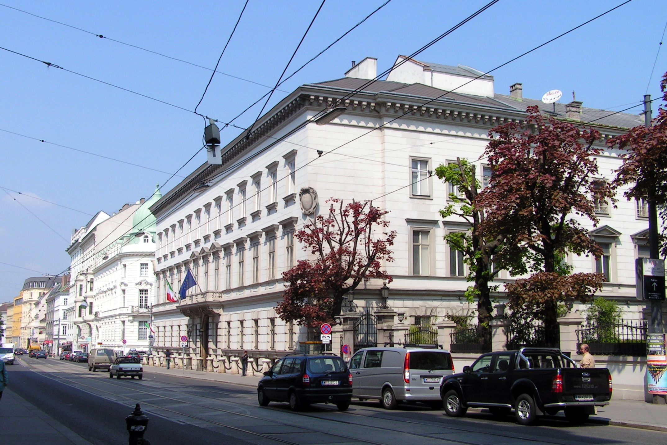 Palais Metternich located at Rennweg 27. Seat of the Italian embassy in Austria.